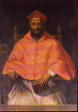 Cardinal Carafa, future Pope Paul IV